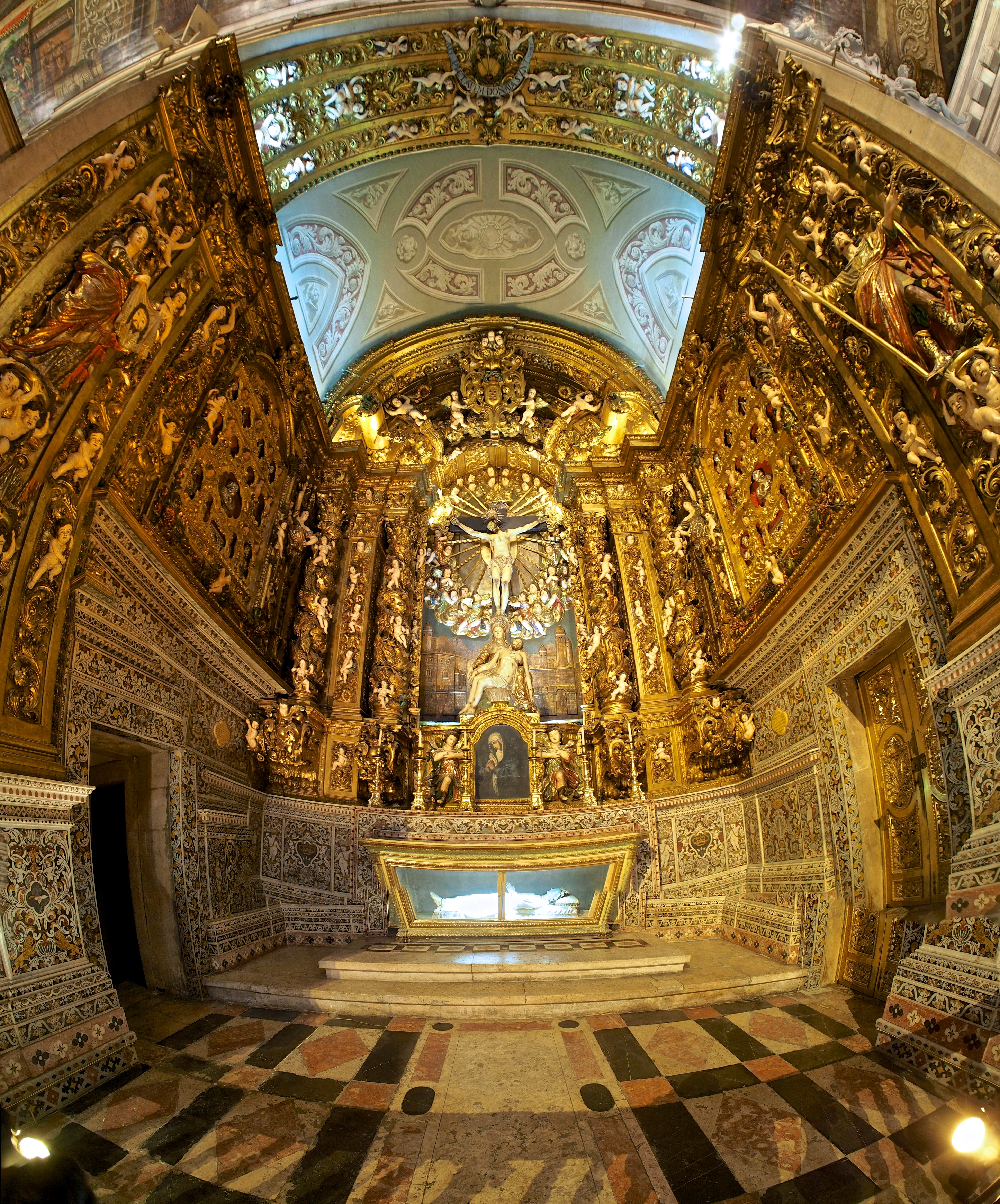 Chapel of Our Lady of Piety stitched from two fisheye images